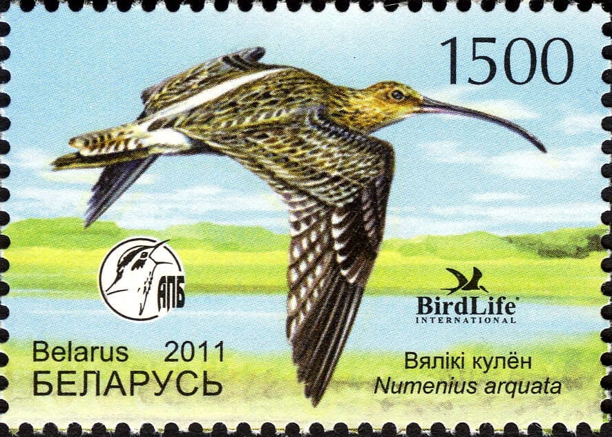 Stamp of Belarus